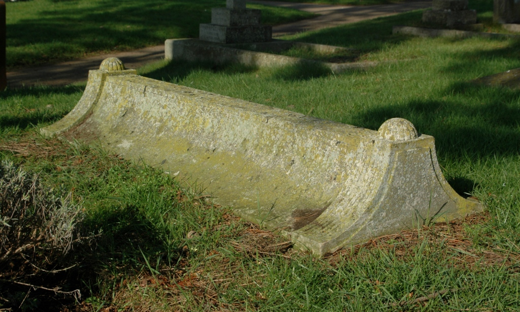 Gravestone of the architect Lawrence Dale in Wolvercote Cemetery, Oxford, England